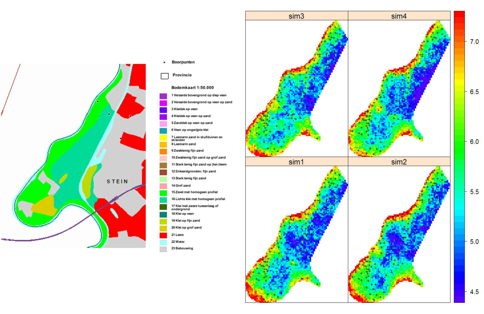 Comparison of a traditional soil polygon map ( vs four simulations of zinc content for the same study area generated using geostatistical simulations (